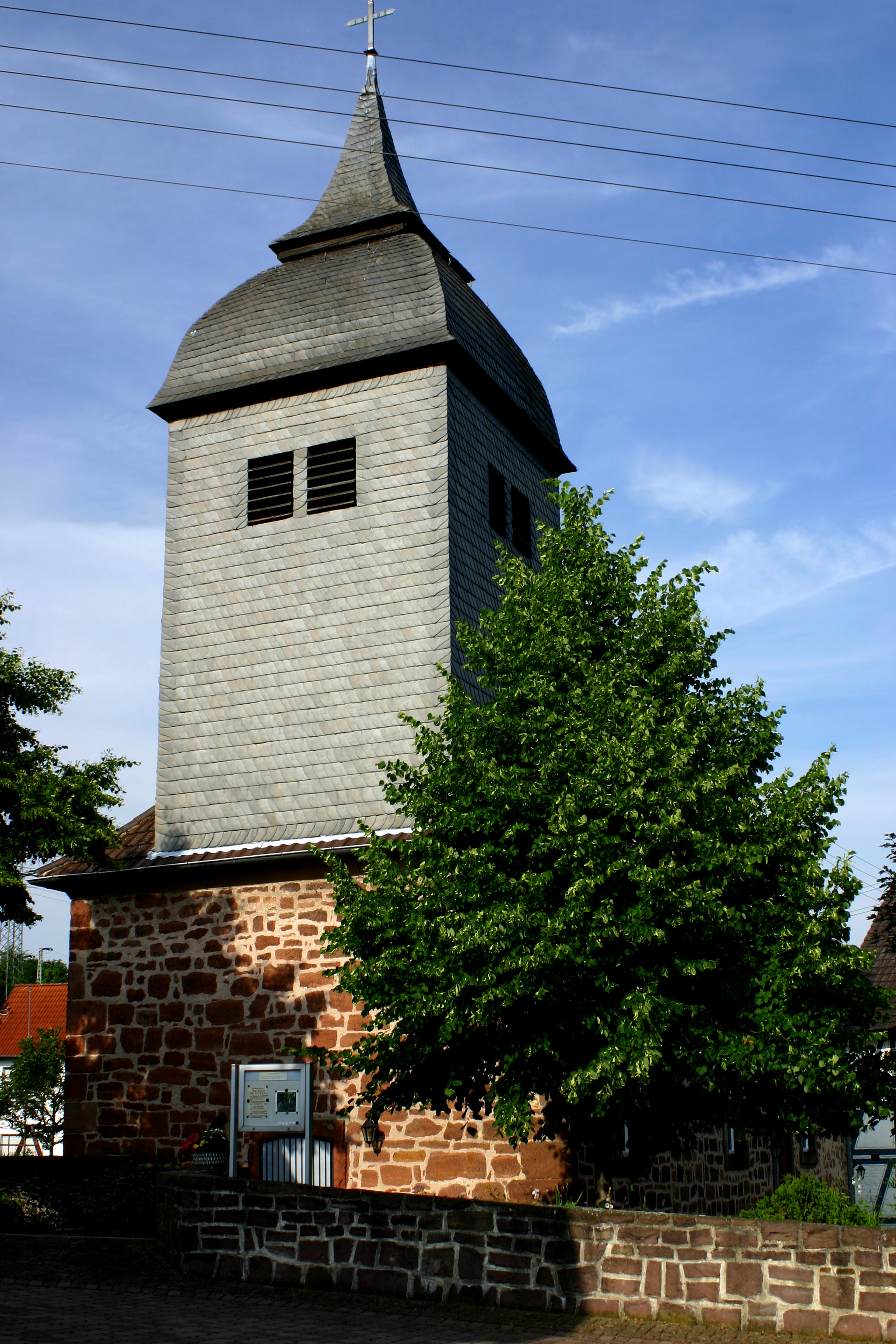 Church of Kerstenhausen, Borken (Hesse), Germany